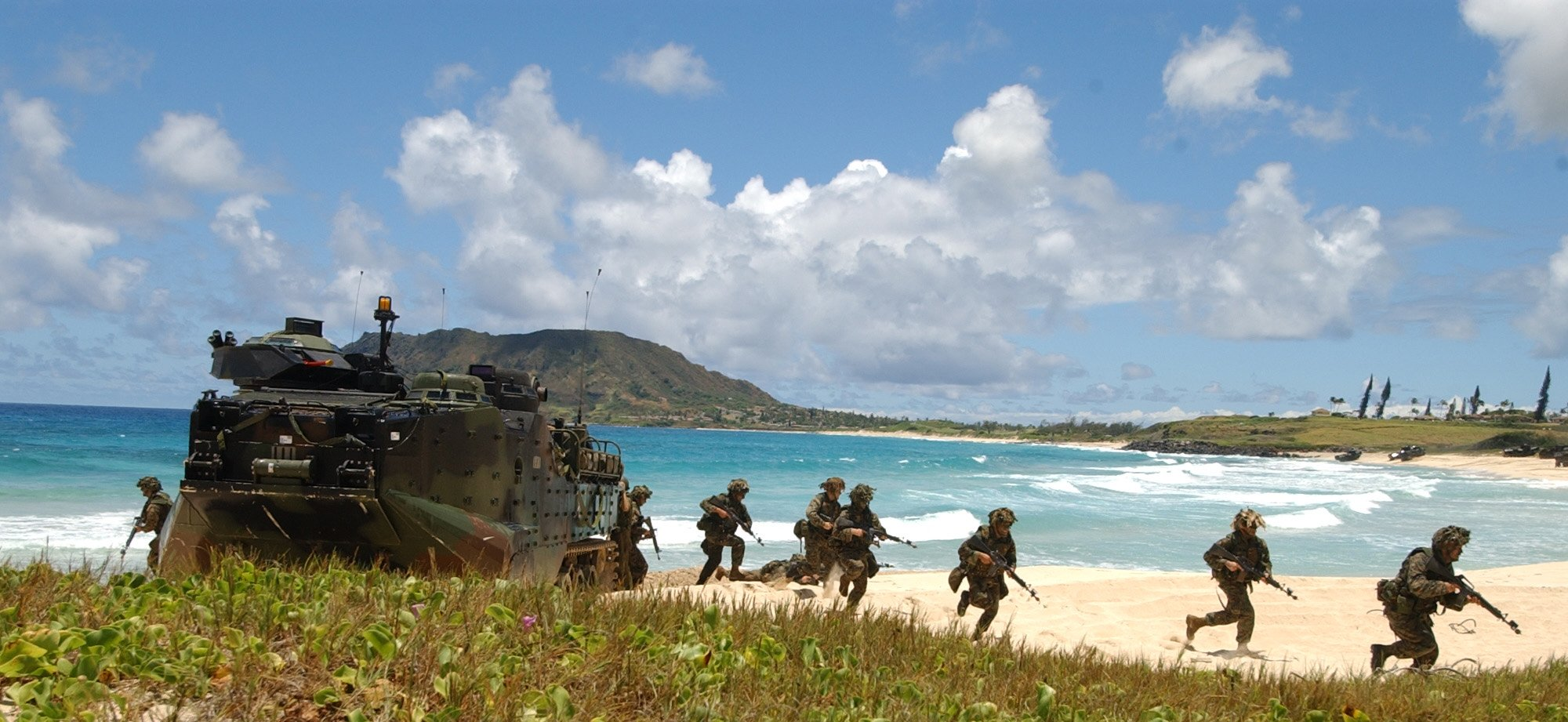 Original Caption: U.S. Marines assigned to 3rd Battalion, 3rd Marine Regiment disembark Amphibious Assault Vehicles during a mechanized raid in support of exercise Rim of the Pacific (RIMPAC) 2004, Marine Corps Base Hawaii, July 18, 2004. RIMPAC is the largest international maritime exercise in the waters around the Hawaiian Islands. This year's exercise includes seven participating nations; Australia, Canada, Chile, Japan, South Korea, the United Kingdom and the United States. RIMPAC is intended to enhance the tactical proficiency of participating units in a wide array of combined operations at sea, while enhancing stability in the Pacific Rim region. (United States Navy photo by Photographer's Mate 1st Class Jane West)